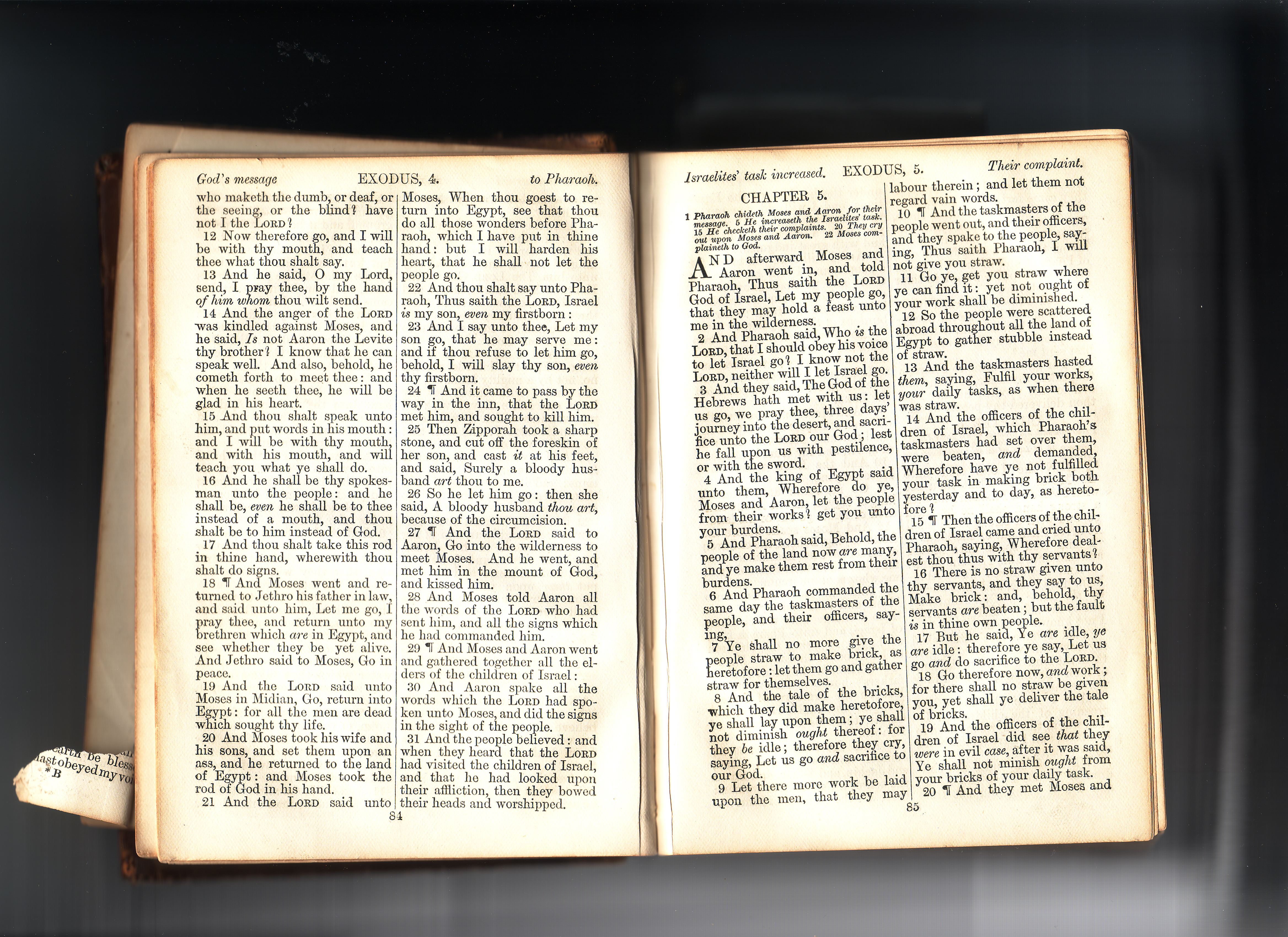 In the King James Version there is Refrence to God Moving the lips of Moses, a spiritual possession, and putting words in his mouth so that he may be an avatar, a tele-presence for imparting Gods message to the people. Exodus 4 Verse 15 "And thou shalt speak unto him, and put words in his mouth: and I will be with thy mouth, and with his mouth, and will teach you what to do."